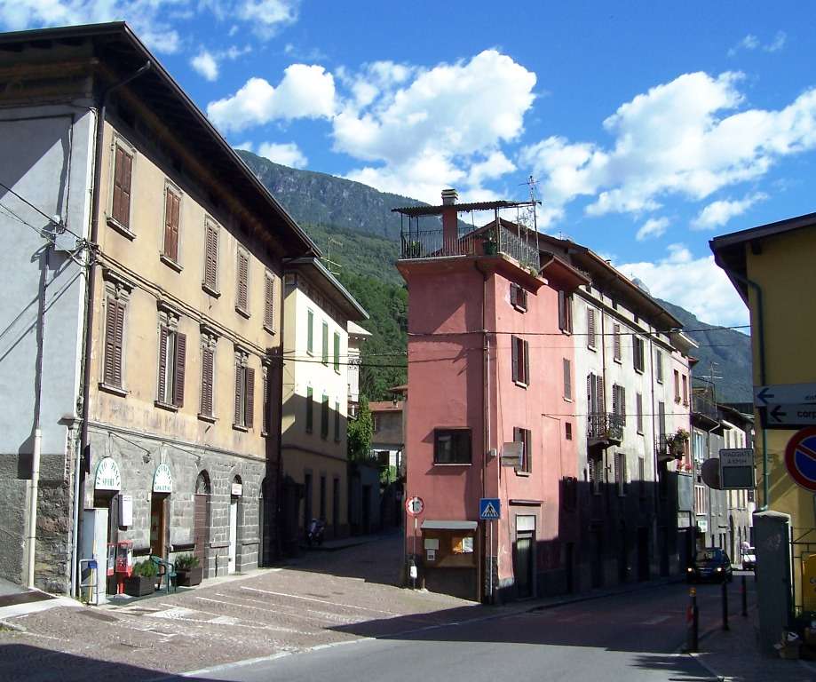 Cedegolo center, Valle Camonica